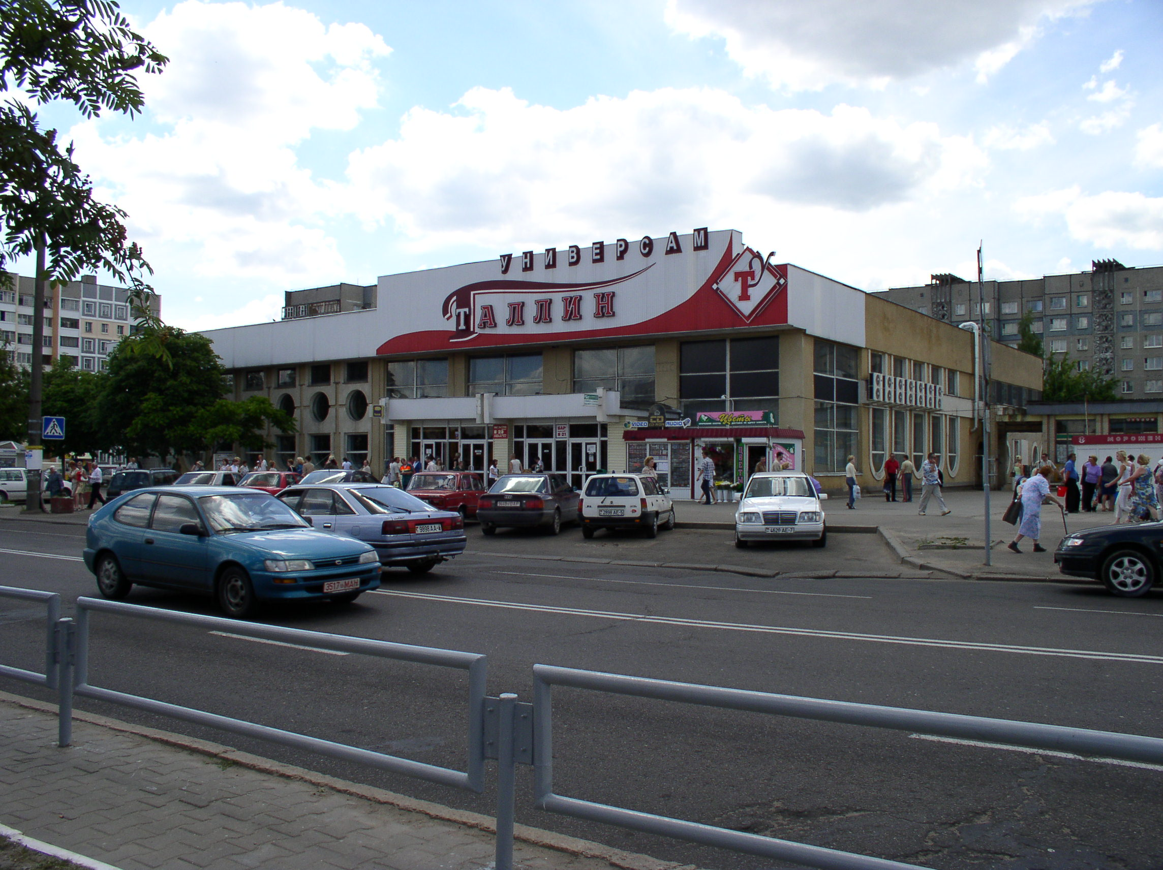 "Tallinn" Supermarket, Minsk, Belarus.